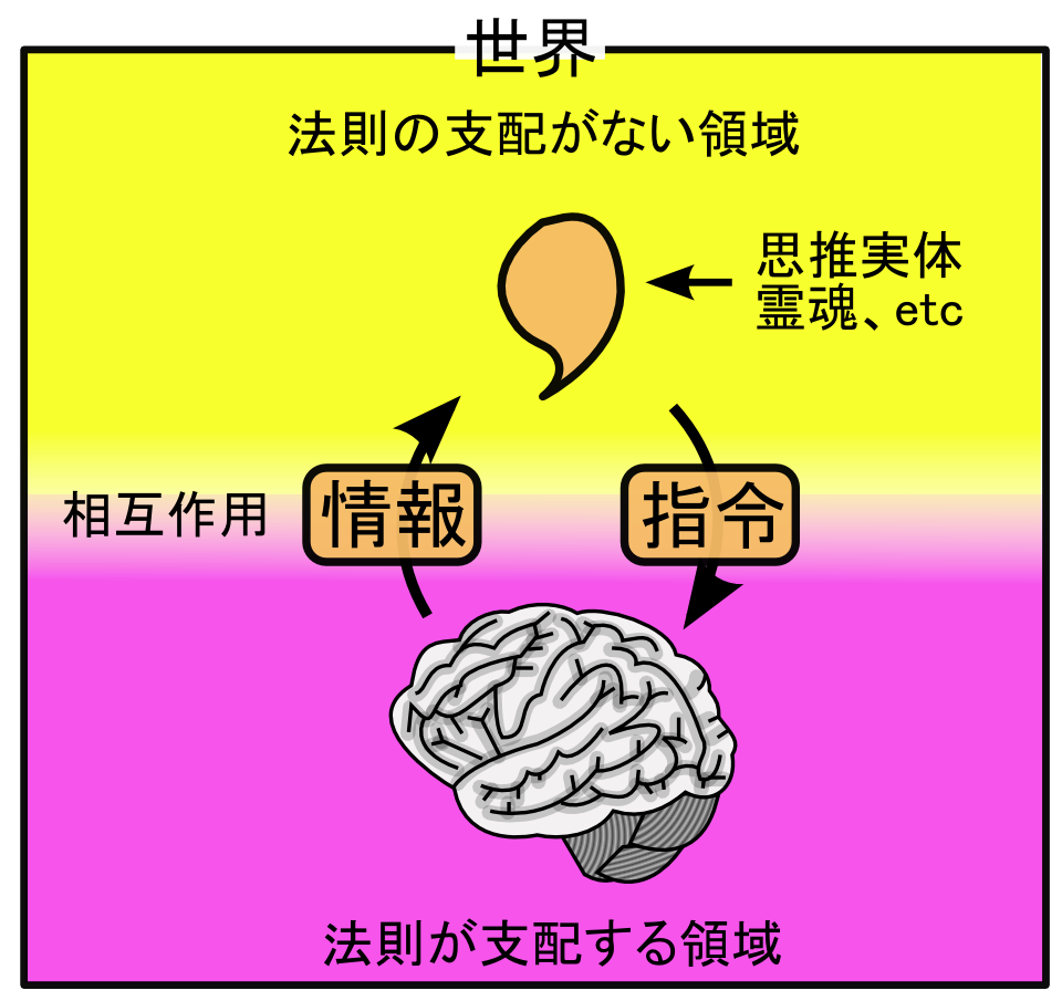 schematic diagram of substantial dualism(Cartesian dualism).